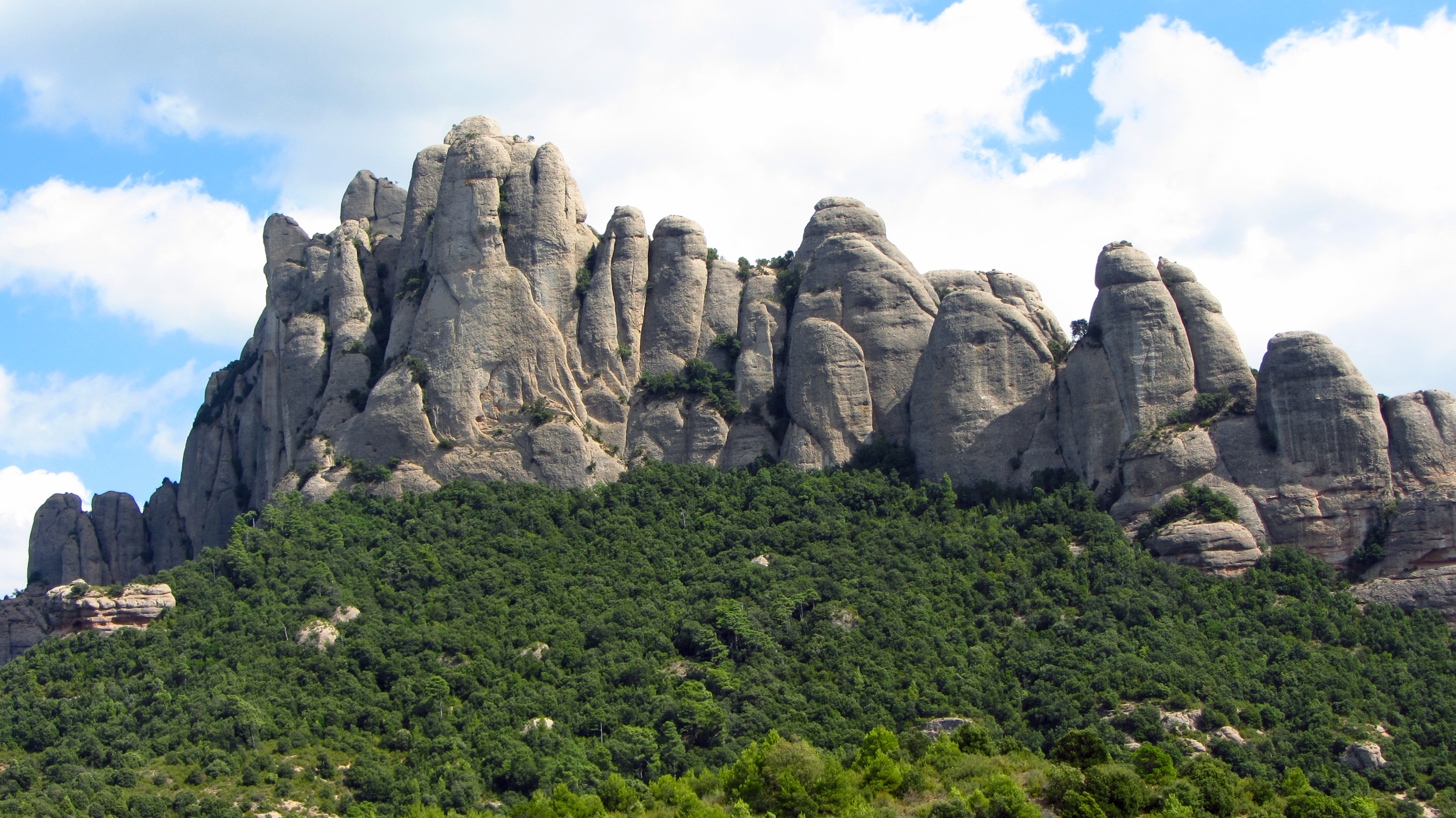 Montserrat, view of Agulles region from Sant Pau Vell